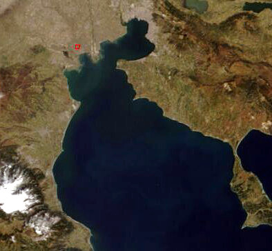 Satellite picture of Thermaic Gulf.